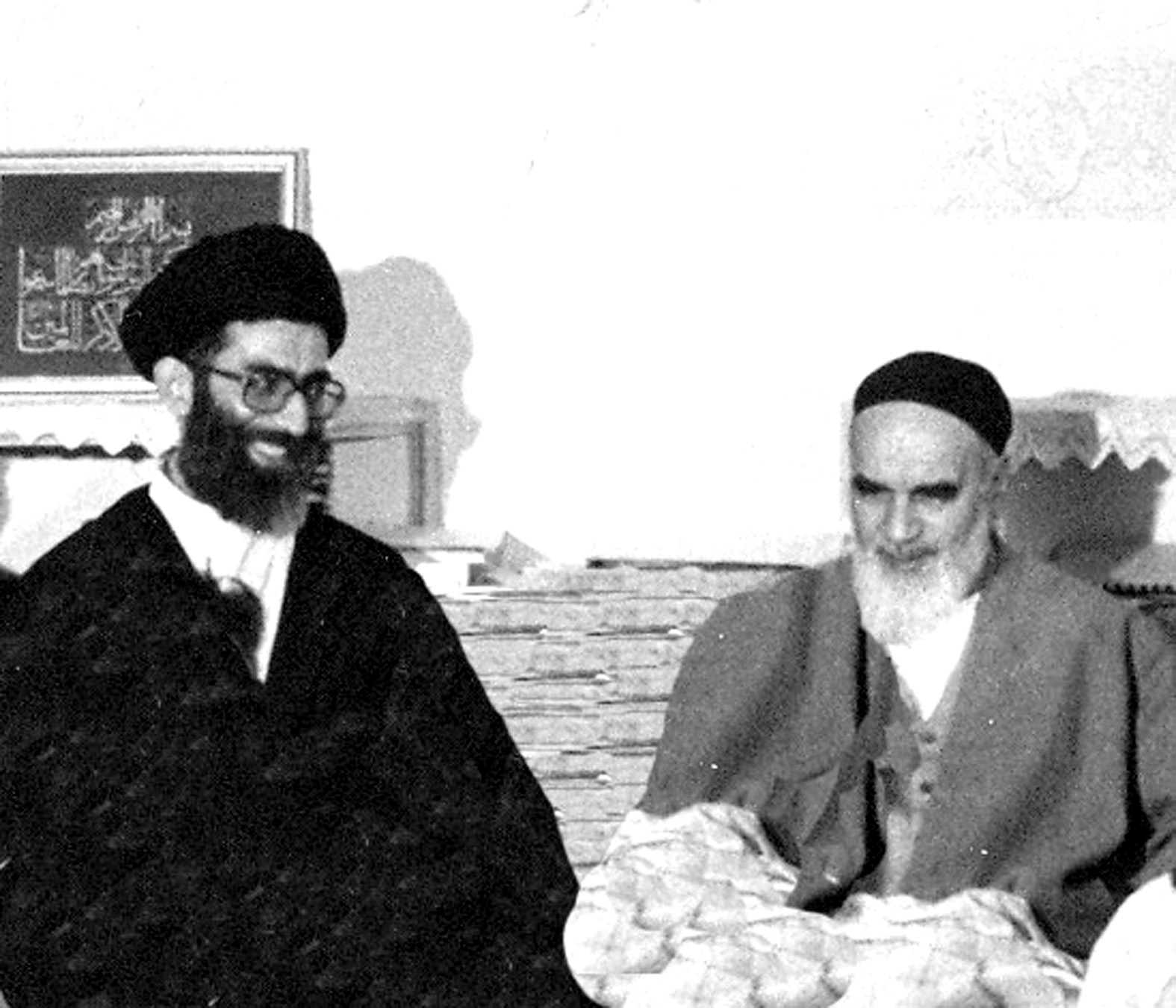 President Ali Khamenei visit to Ruhollah Khomeini - August 13, 1986